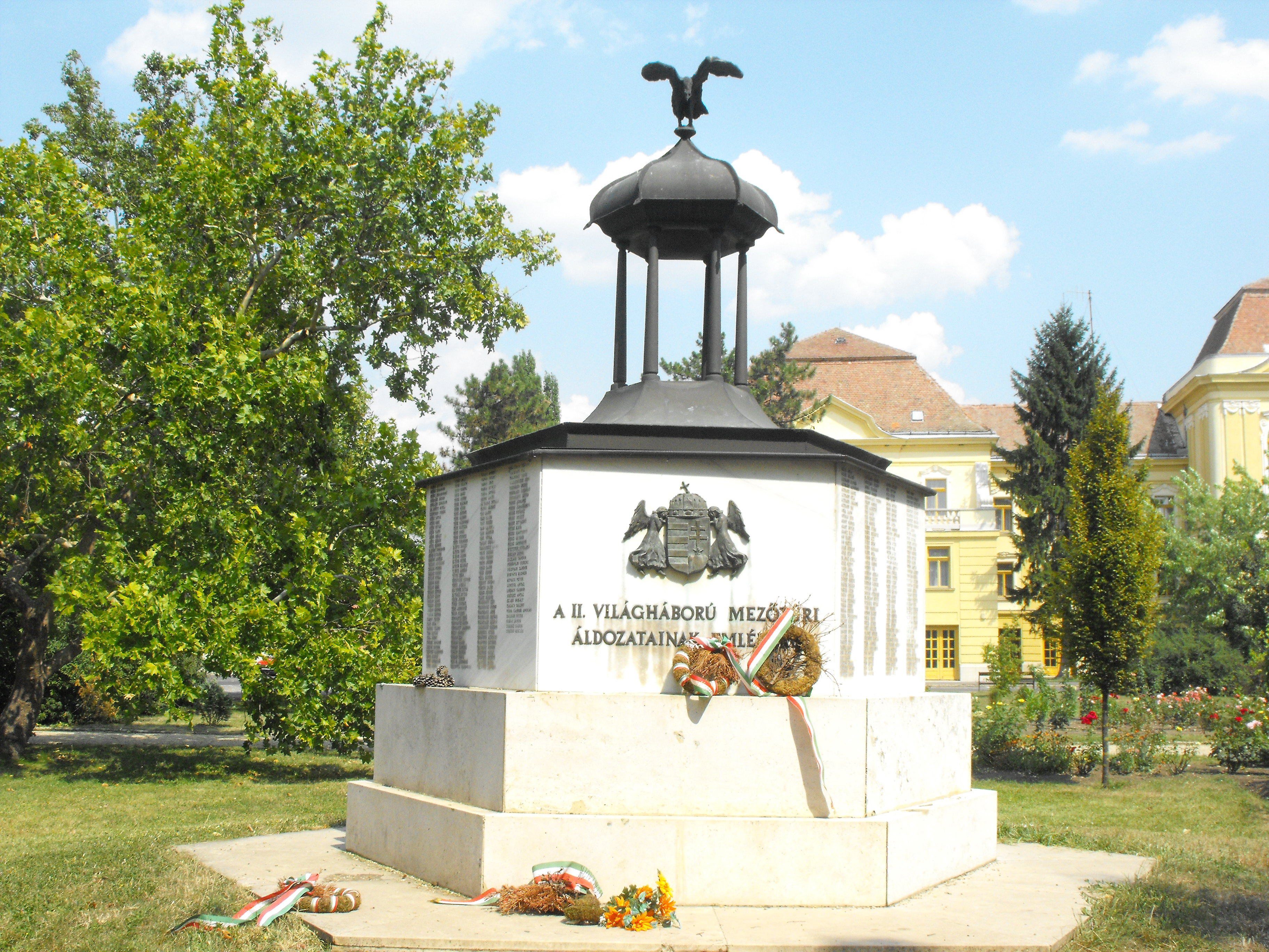 World War II memorial in the downtown of Mezőtúr, Hungary. Sculptors: Géza Balogh, Tibor Borbás, Sándor Györfi and Aranka E. Lakatos in 1991